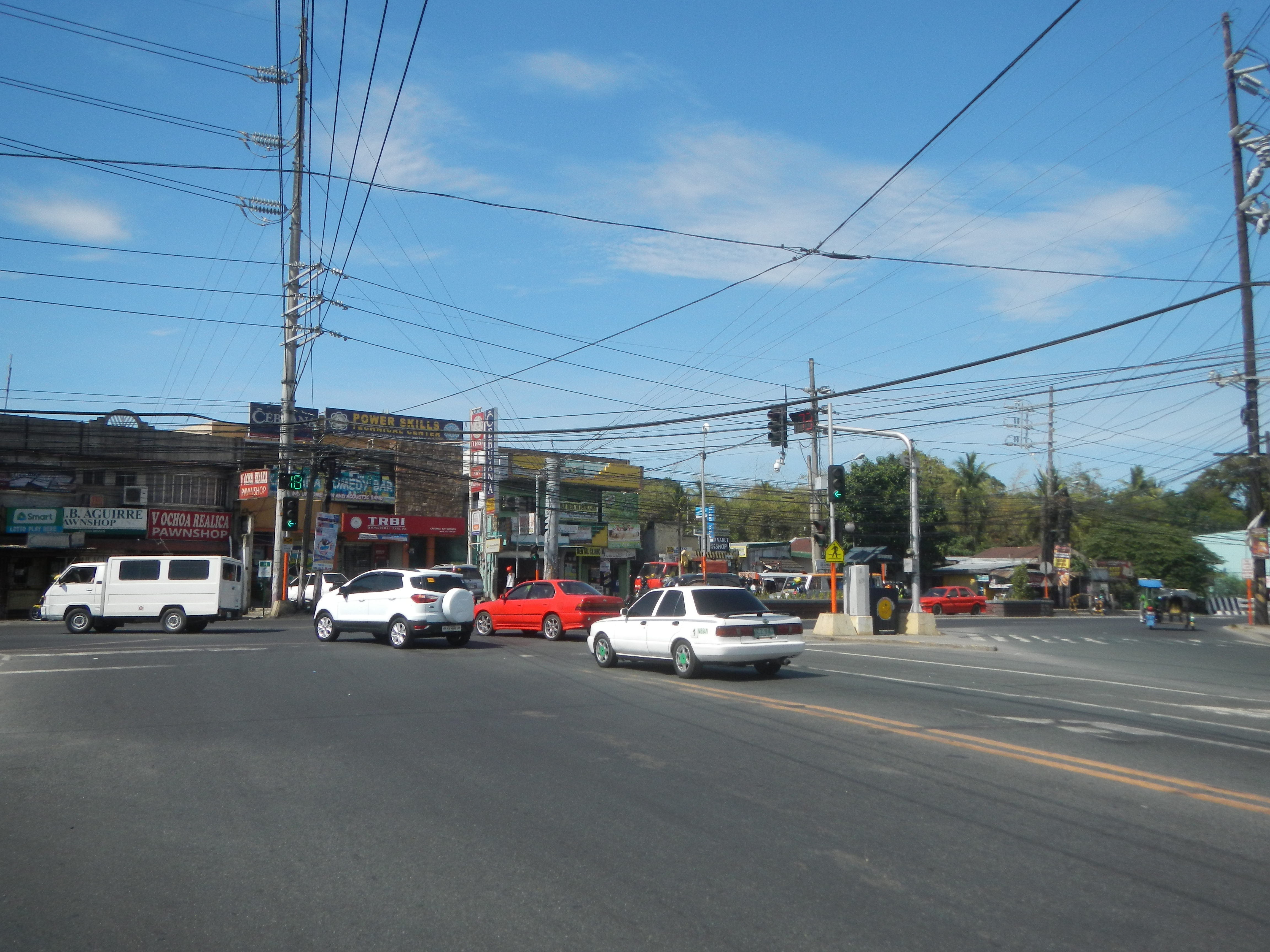 Paciano Rizal (Checkpoint) intersection, Calamba City Paseo Uno de Calamba Checkpoint Mall - Super Metro Hypermart Mayapa Bridge (San Juan River Calamba, Manila South Road) San Juan River (Calamba) Calamba Doctor's Hospital and College (Manila South Road, Parian, Calamba City) Calamba Doctors' Hospital Calamba Doctors' College National Highway (Calamba Poblacion-Mayapa) of Maharlika Highway (Calamba City section) Pan-Philippine Highway; in Barangays Paciano Rizal, Calamba, Parian, Calamba, Calamba, Laguna from Calamba Poblacion Hall 14°12'54"N 121°8'5"E (Note: Judge Florentino Floro, the owner, to repeat, Donor Florentino Floro of all these photos hereby donate gratuitously, freely and unconditionally Judge Floro all these photos to and for Wikimedia Commons, exclusively, for public use of the public domain, and again without any condition whatsoever).